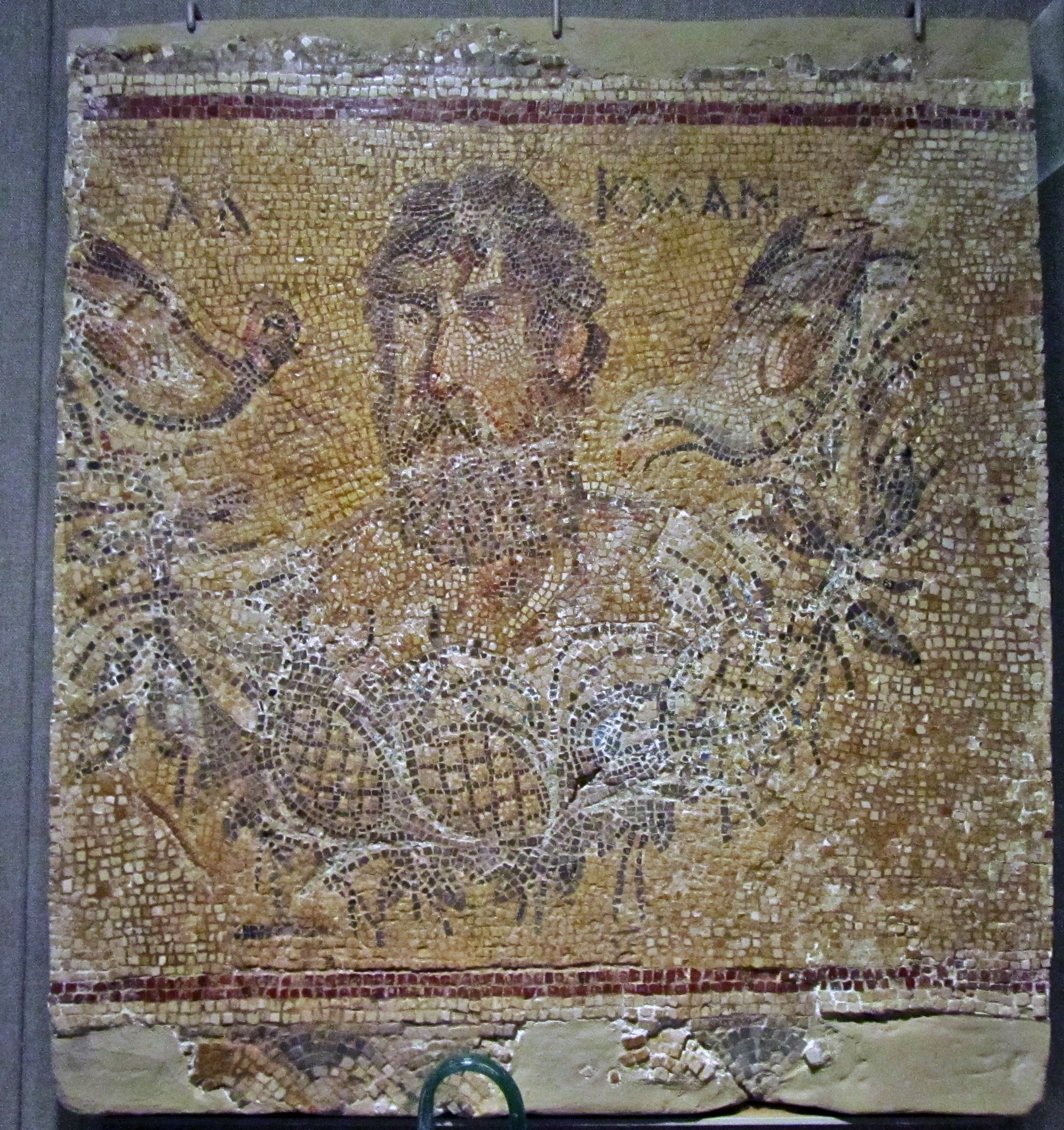 Mosaic Portrait of the Poet Alkman Stone tesserae, mortar Roman Period (late 2nd-3rd century AD) Jerash, Jordan This imaginary portrait of the Greek lyric poet Alkman (6th century BC) once formed part of the border of a large floor mosaic, along with portraits of other ancient Greek authors, the Seasons, and the Muses. Scenes from the life of the Greek god Dionysos filled the center of the mosaic, which probably adorned a dining room, or triclinium, in ancient Gerasa (modern Jerash). The revelries of the god of wine were an appropriate subject for a dining room, where guests consumed wine served in elegant glasses and feasted on lavishly prepared foods. The portraits o Alkman and other classic Greek writers allude to the coultured conversation and display of learning that took place at elite dinner parties throughout the Roman Mediterranean.